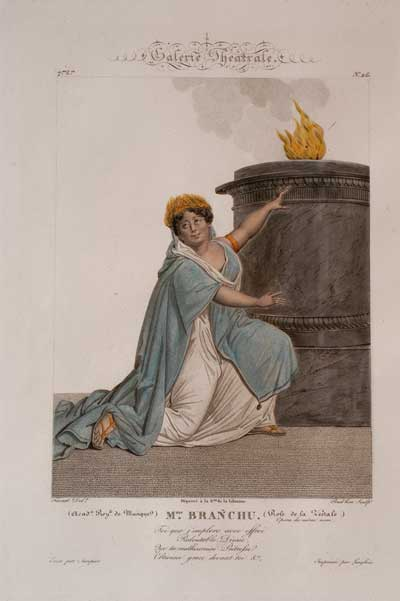 French opera singer Caroline Branchu (1780-1850) as Julia in "La Vestale" by Gaspare Spontini (1774-1851)